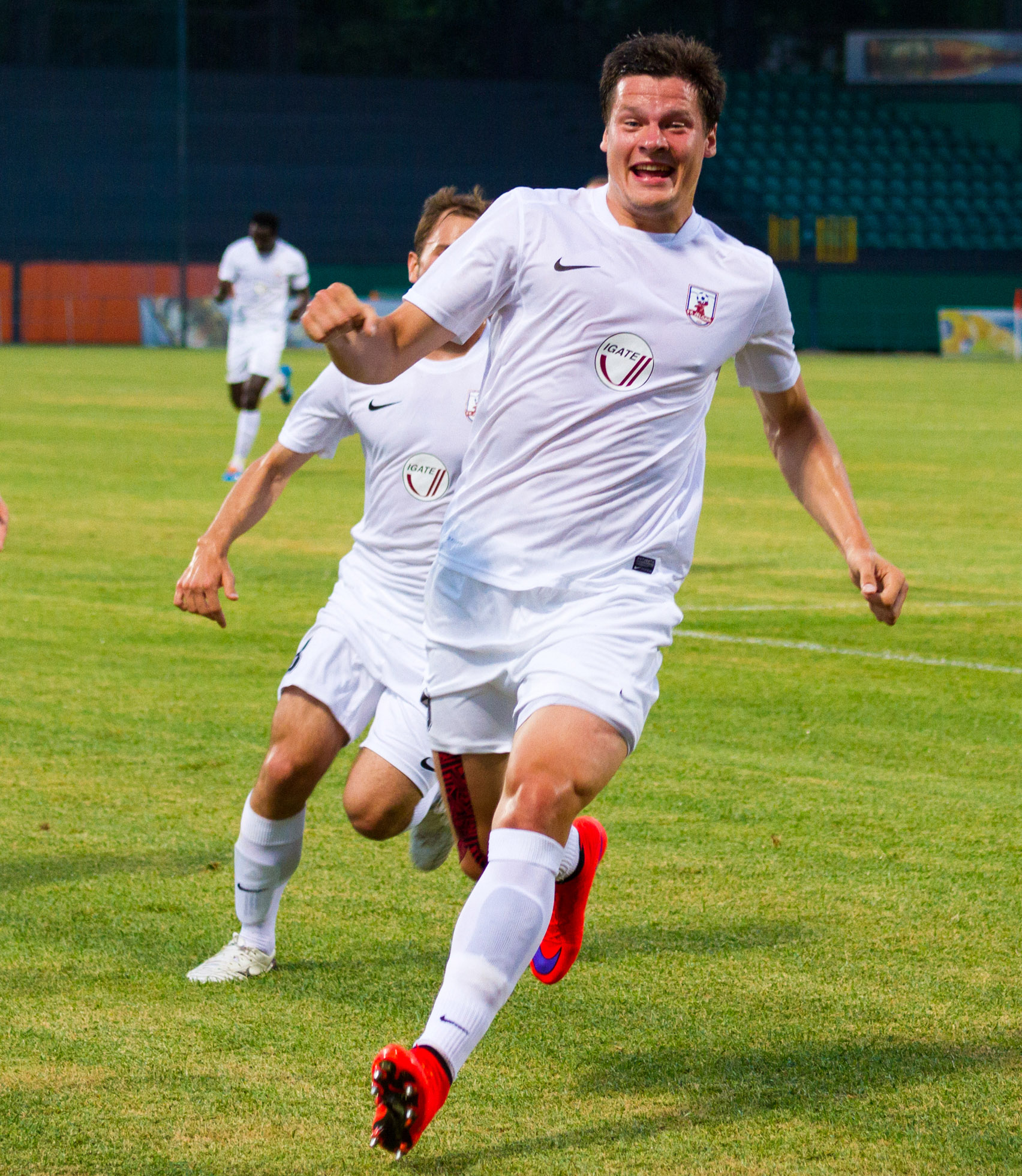 Ošs after scoring for Jelgava aginst Litex in 2015